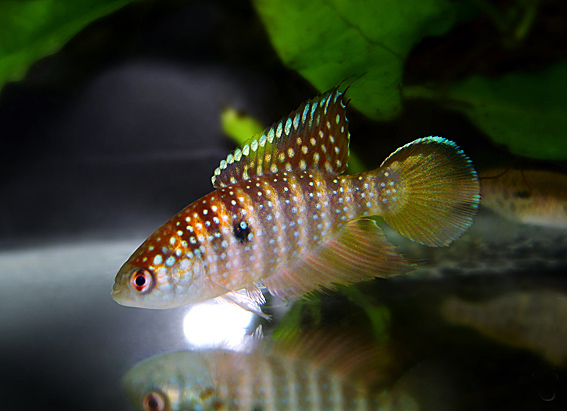 Simpsonichthys notatus, male specimen